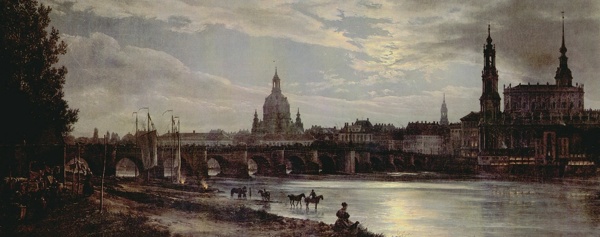 Johan Christian Dahl, Dresden in 1839 (detail)